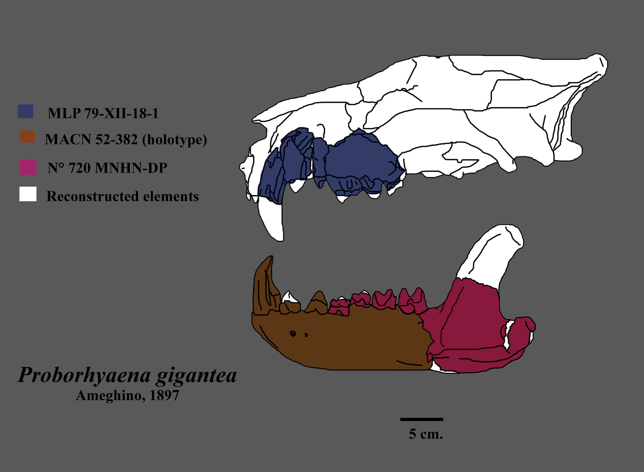 Hypothetical recosntruction of the skull and mandible of the sparassodont Proborhyaena gigantea, from the Oligocene of Argentina and Uruguay.